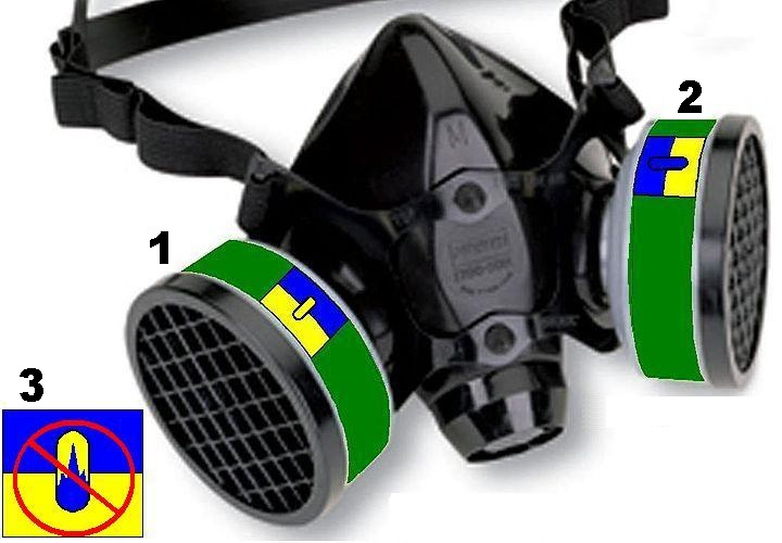 Respirator North 7700 with filter RT 41 (ammonia). At the end of the service life, the transparent window changes color from yellow to blue. 1 - a new filter; 2 - the filter needs to be replaced; 3 - changing the color of the indicator, in which one can not continue to use the filter.